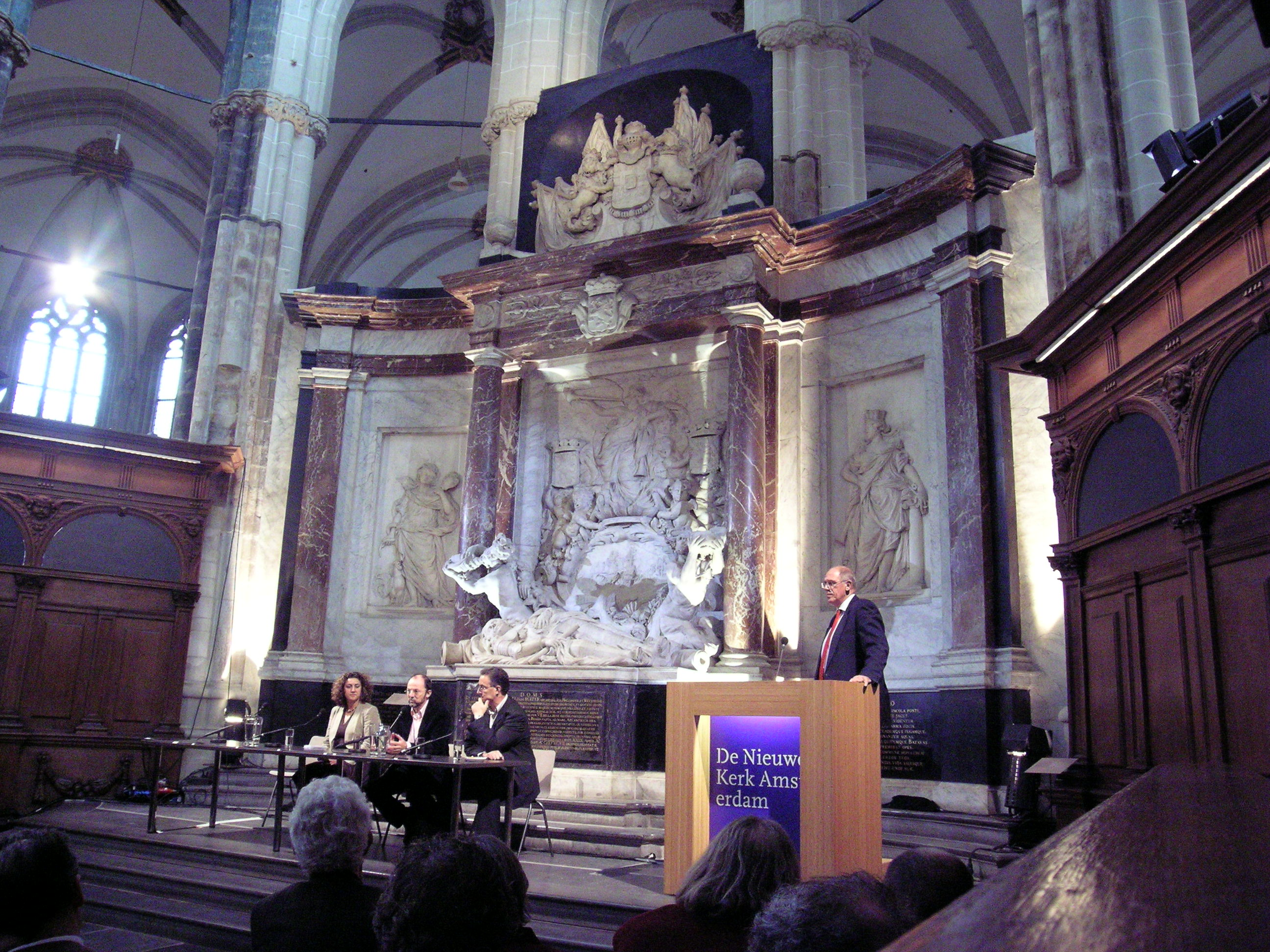 The panel of the final discussion at the manifestation of Hans Dijkstal's Een Land Een Samenleving at 2006-11-11 in the Nieuwe Kerk (New Church) in Amsterdam. From left to right Halleh Gorashi, Paul Schnabel, Ahmed Aboutaleb and the man himself, Hans Dijkstal. Original filename: Dscn6512.jpg